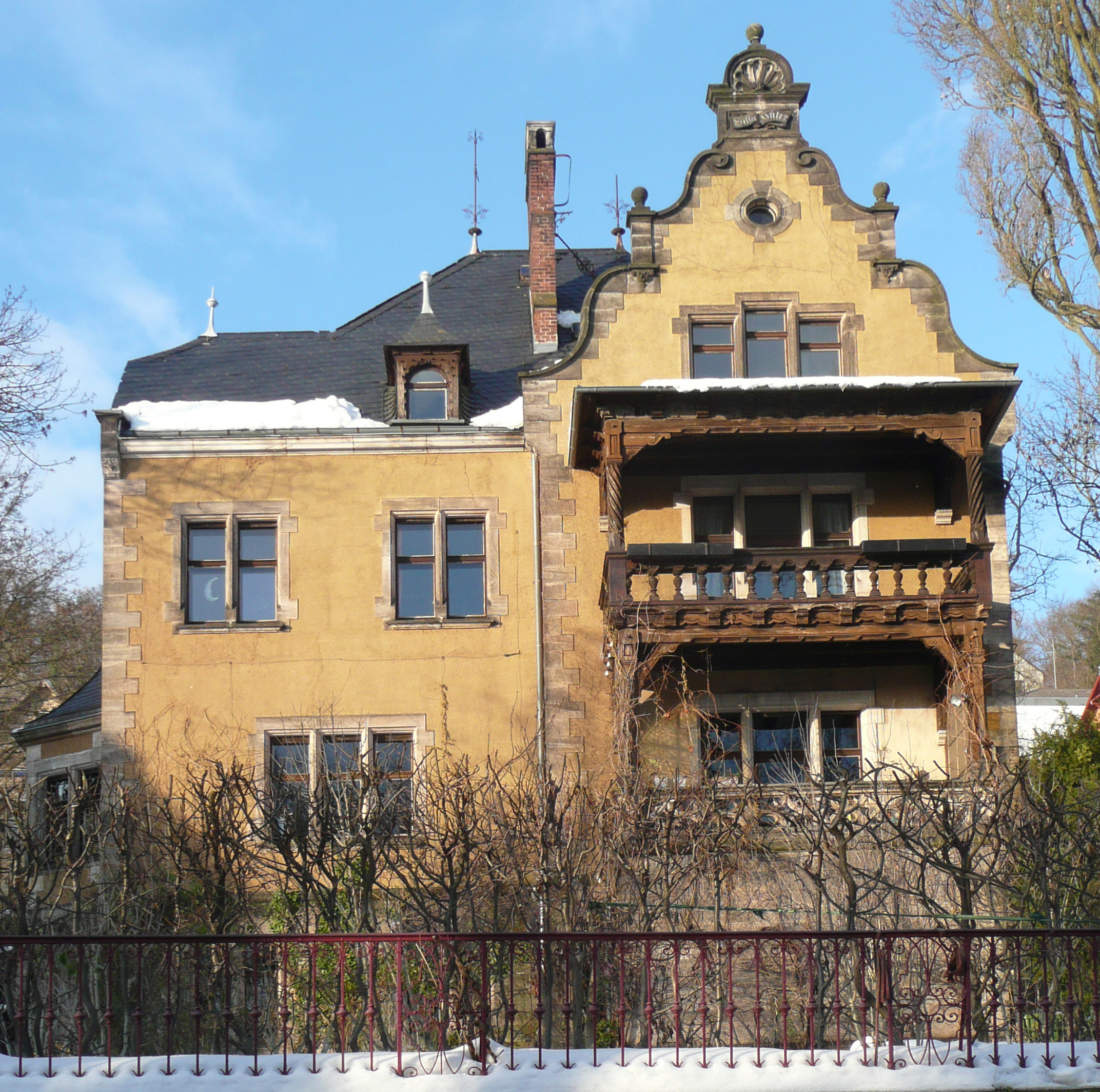 Villa Hüter, Barfüßertor 5 in Marburg seen from south. 1896 built by the physician Victor Hüter.